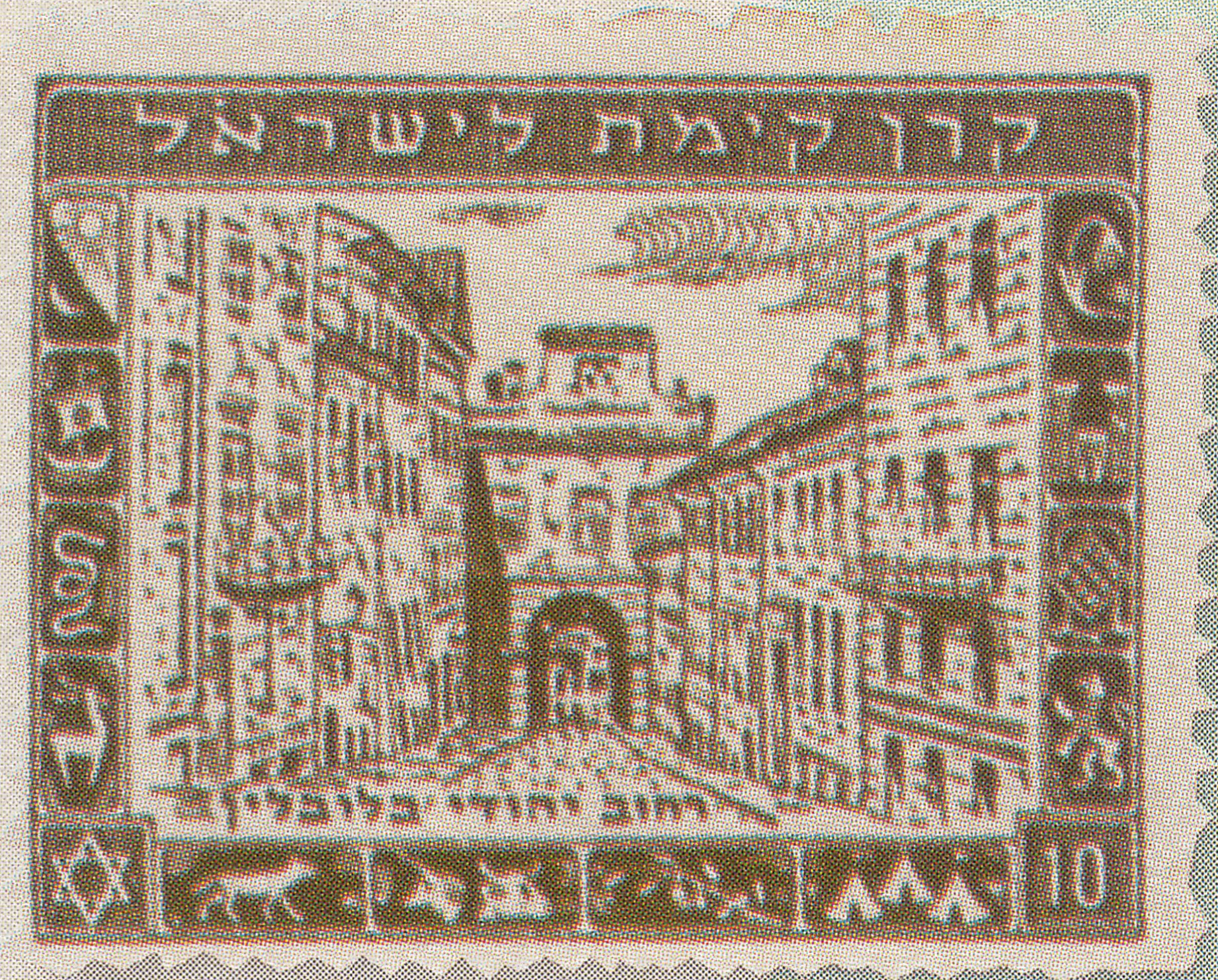 Poststamp with Grodzka-Gate in Jewish Quarter in Lublin Poland